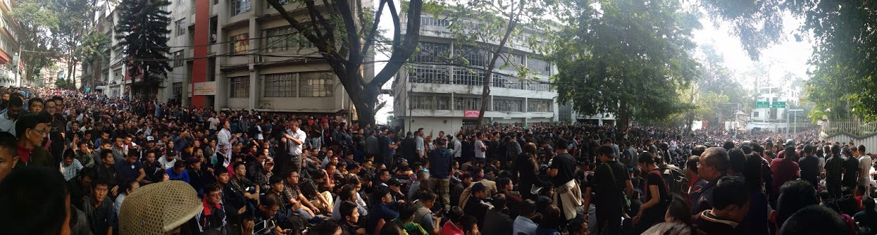 Quite Notice to CEO in Mizoram